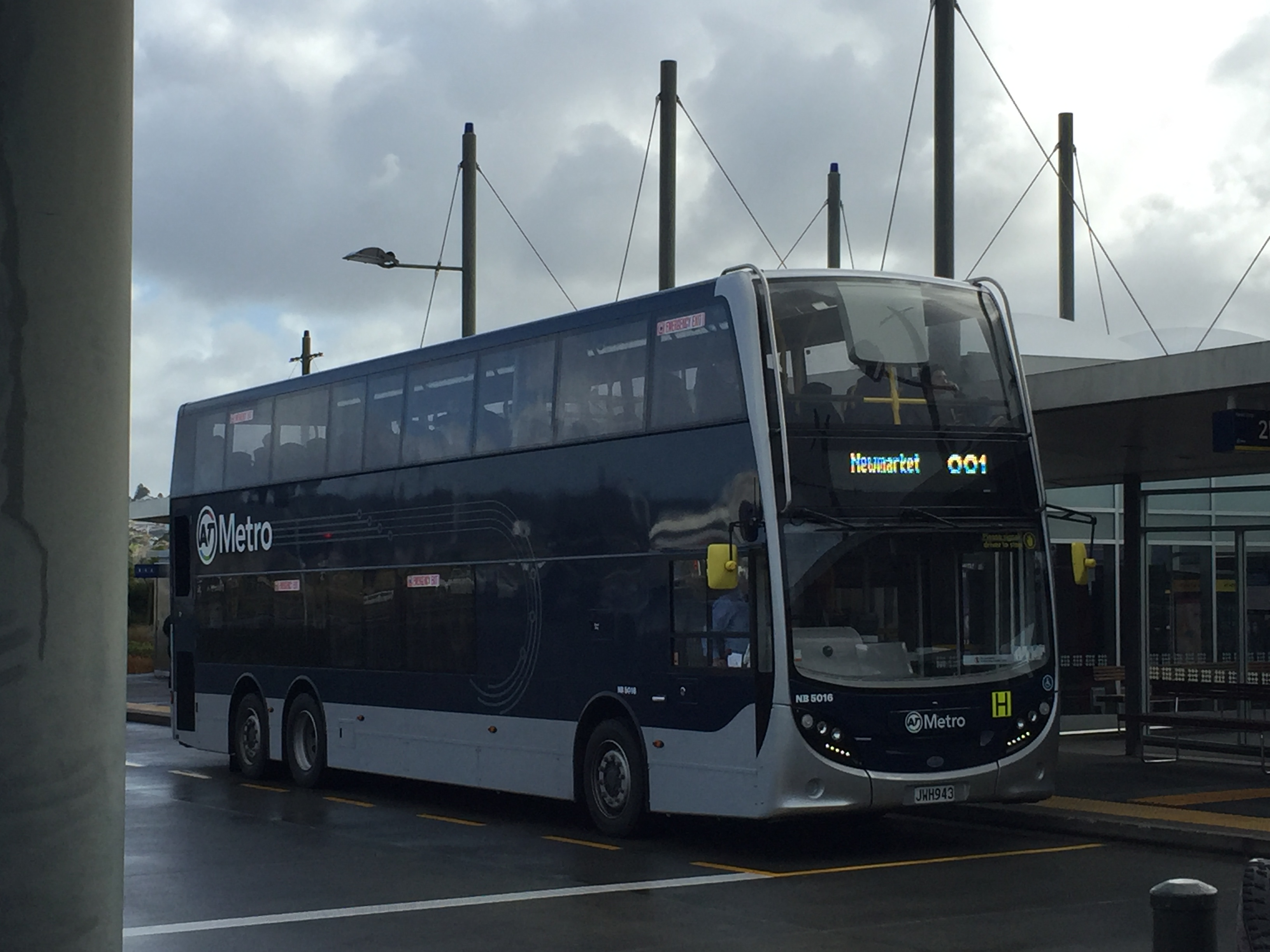 F/N# 5016 Enviro500MMC operated by NZBus, usually running on Route 881.